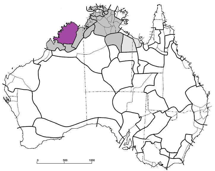 Worrorran languages (purple), among other non-Pama-Nyungan languages (grey)